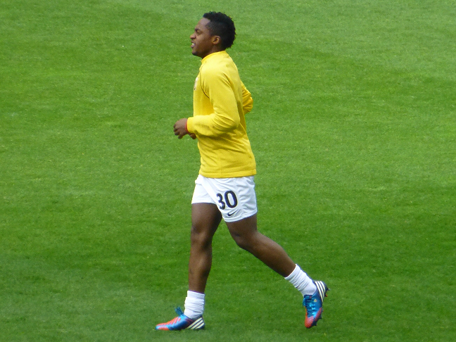 Renato Ibarra in GelreDome prior to the football match Vitesse vs. FC Twente